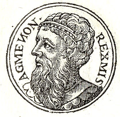 Agamemnon (ancient Greek: Ἀγαμέμνων) is the son of King Atreus of Mycenae and Queen Aerope